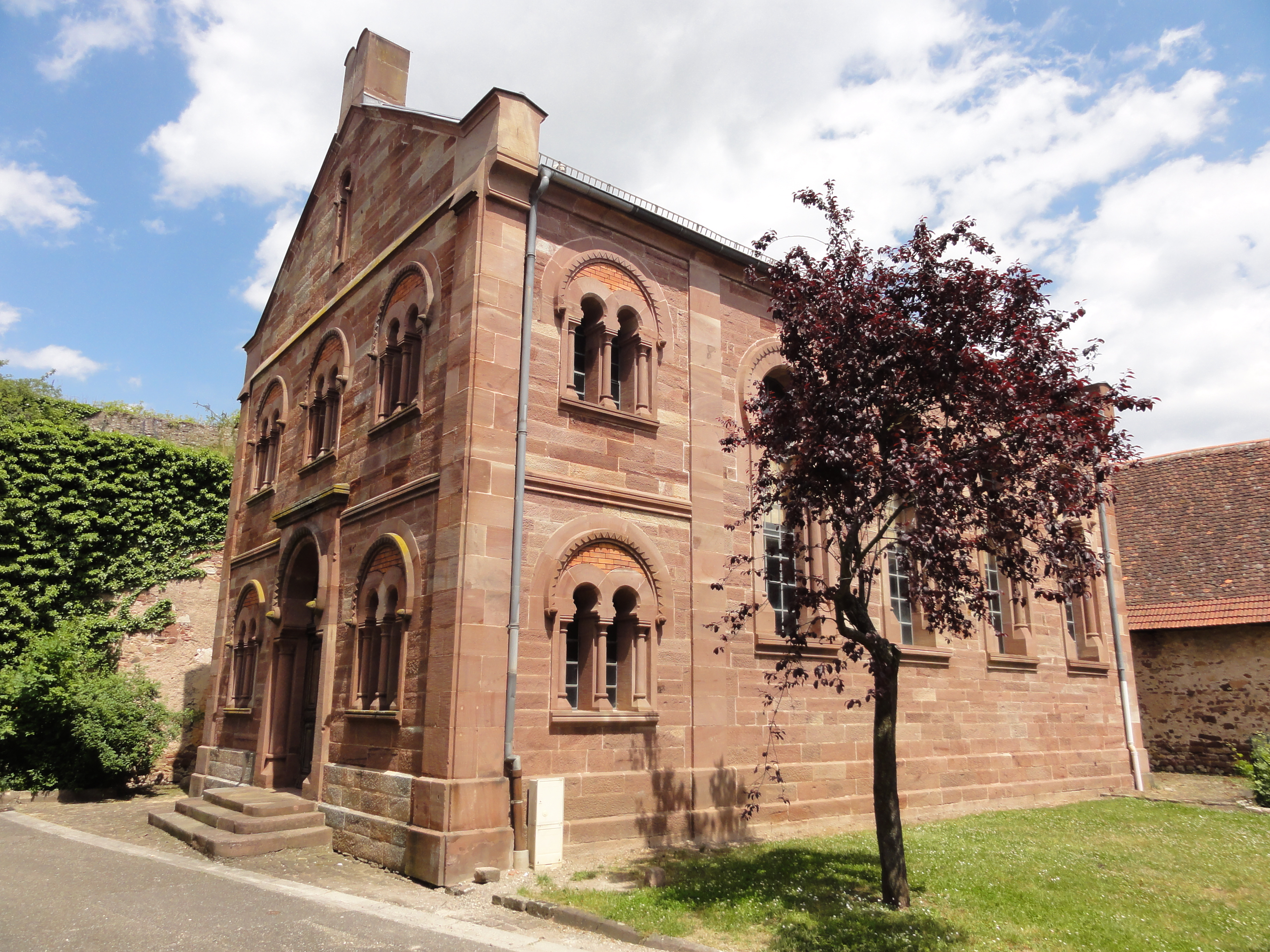 Alsace, Bas-Rhin, Westhoffen, Synagogue (1867-1868), place de la Synagogue. It is indexed in the Base Mérimée, a database of architectural heritage maintained by the French Ministry of Culture, under the references PA00085286 and IA67006261.